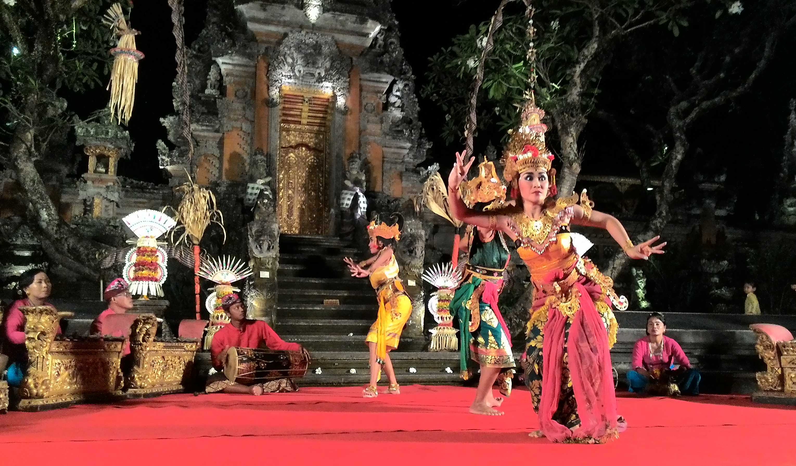 Balinese Ramayana dance drama performance in Pura Taman Saraswati, Ubud, Bali. Sita is in front.